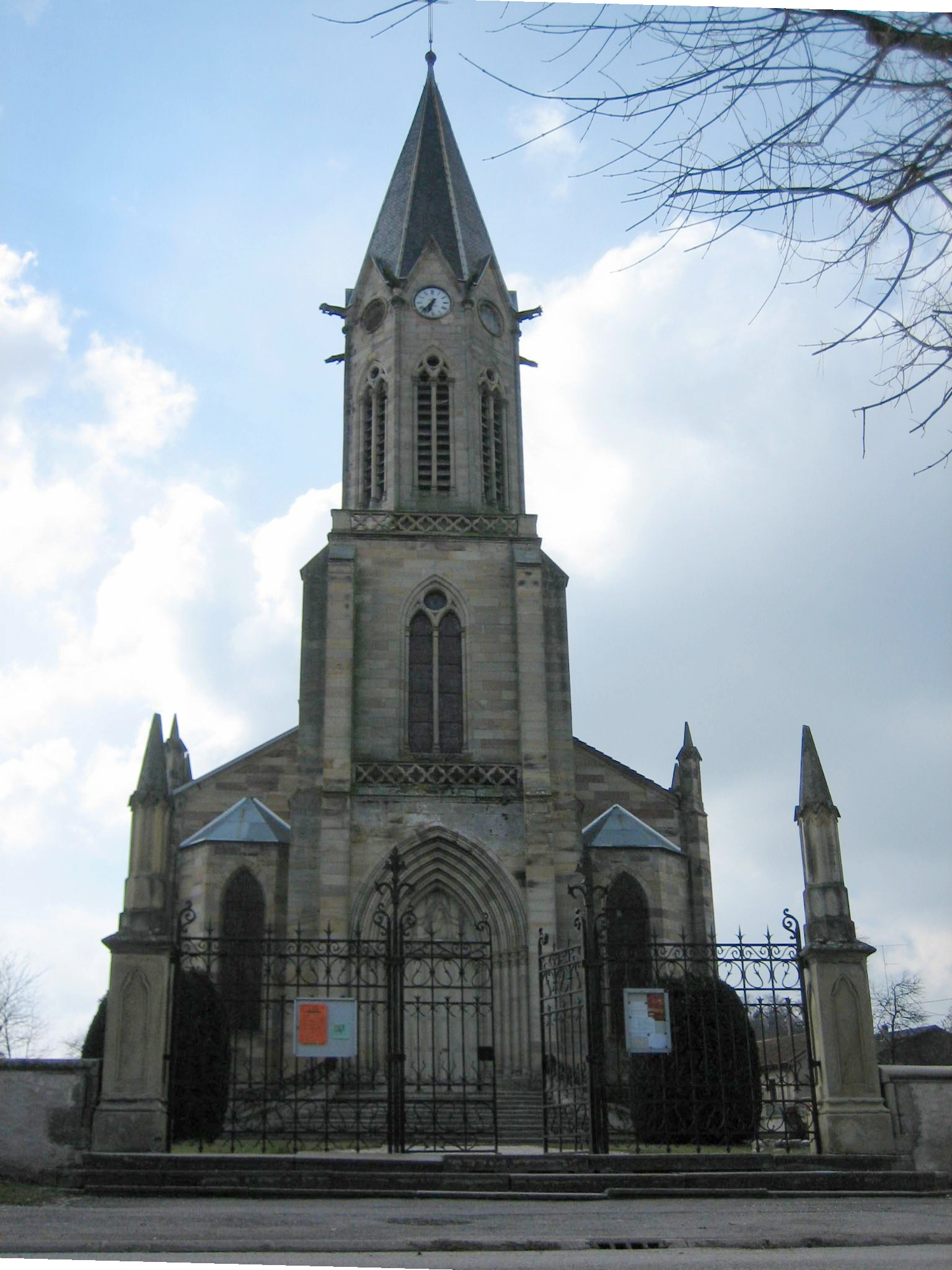 Church of Padoux, France.